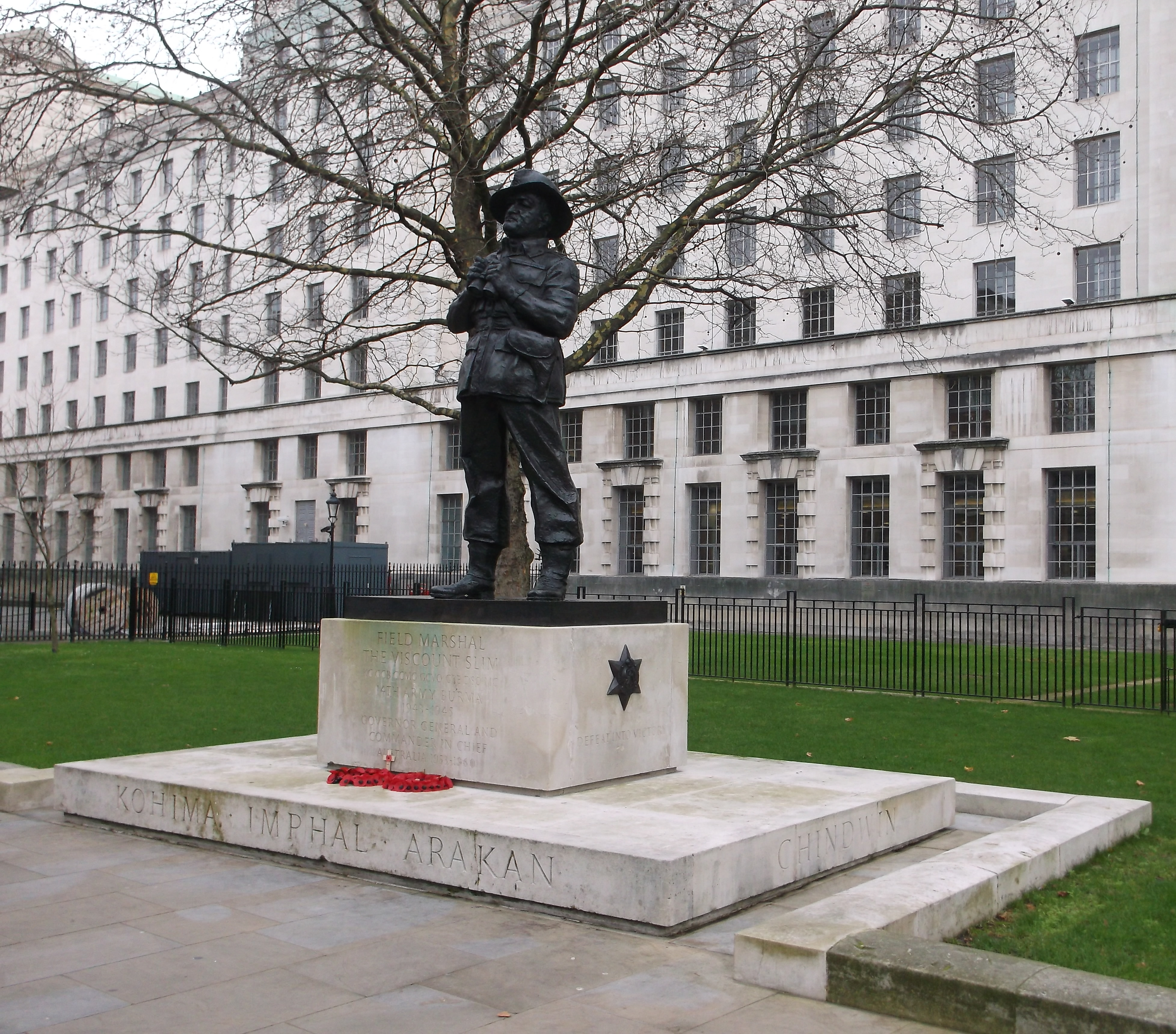 Statue of Field Marshal the Viscount (William) Slim, Whitehall, London